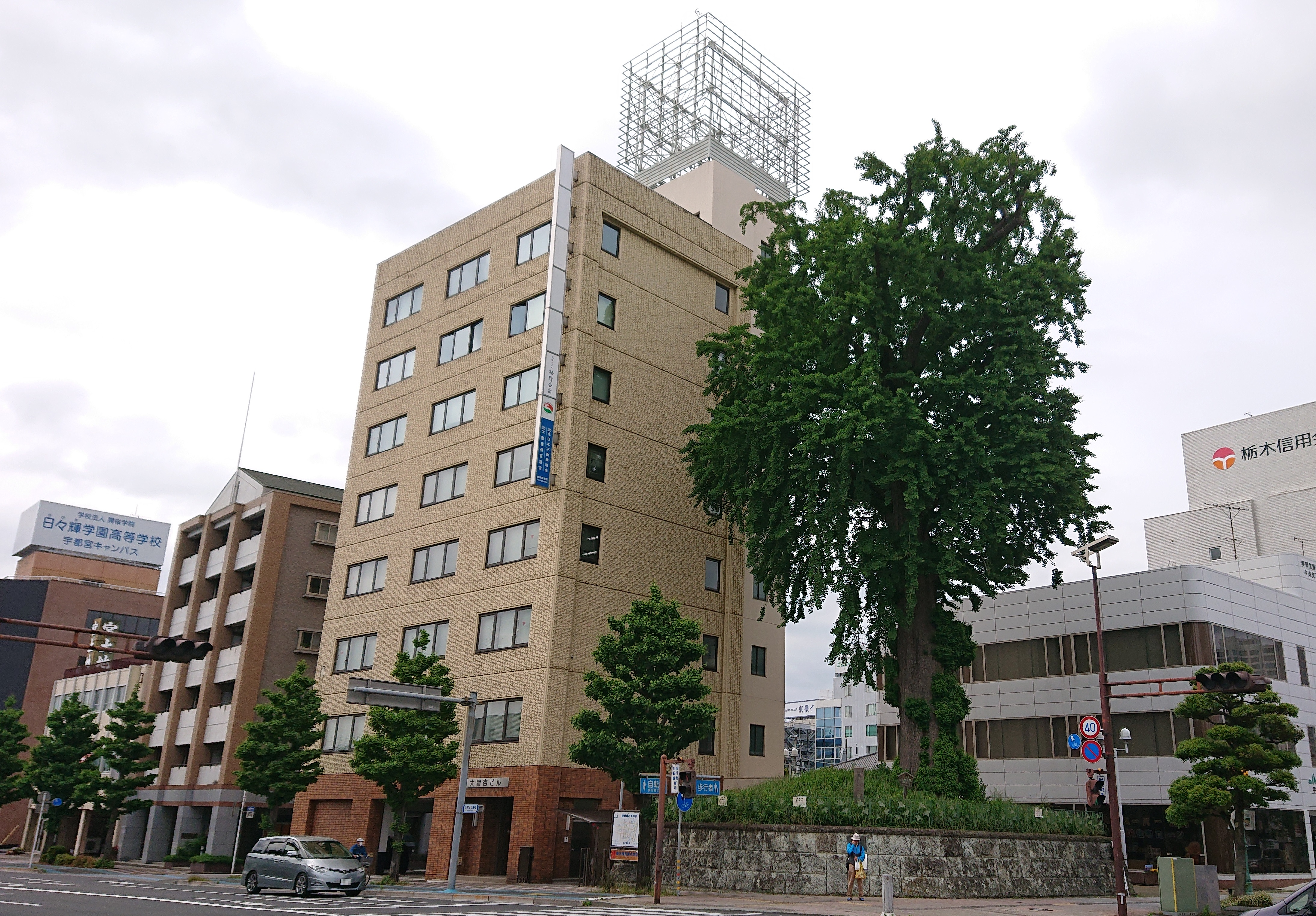 This is the Big Ginkgo in Asahi-cho and Big Ginkgo Building in Utsunomiya, Tochigi, Japan.